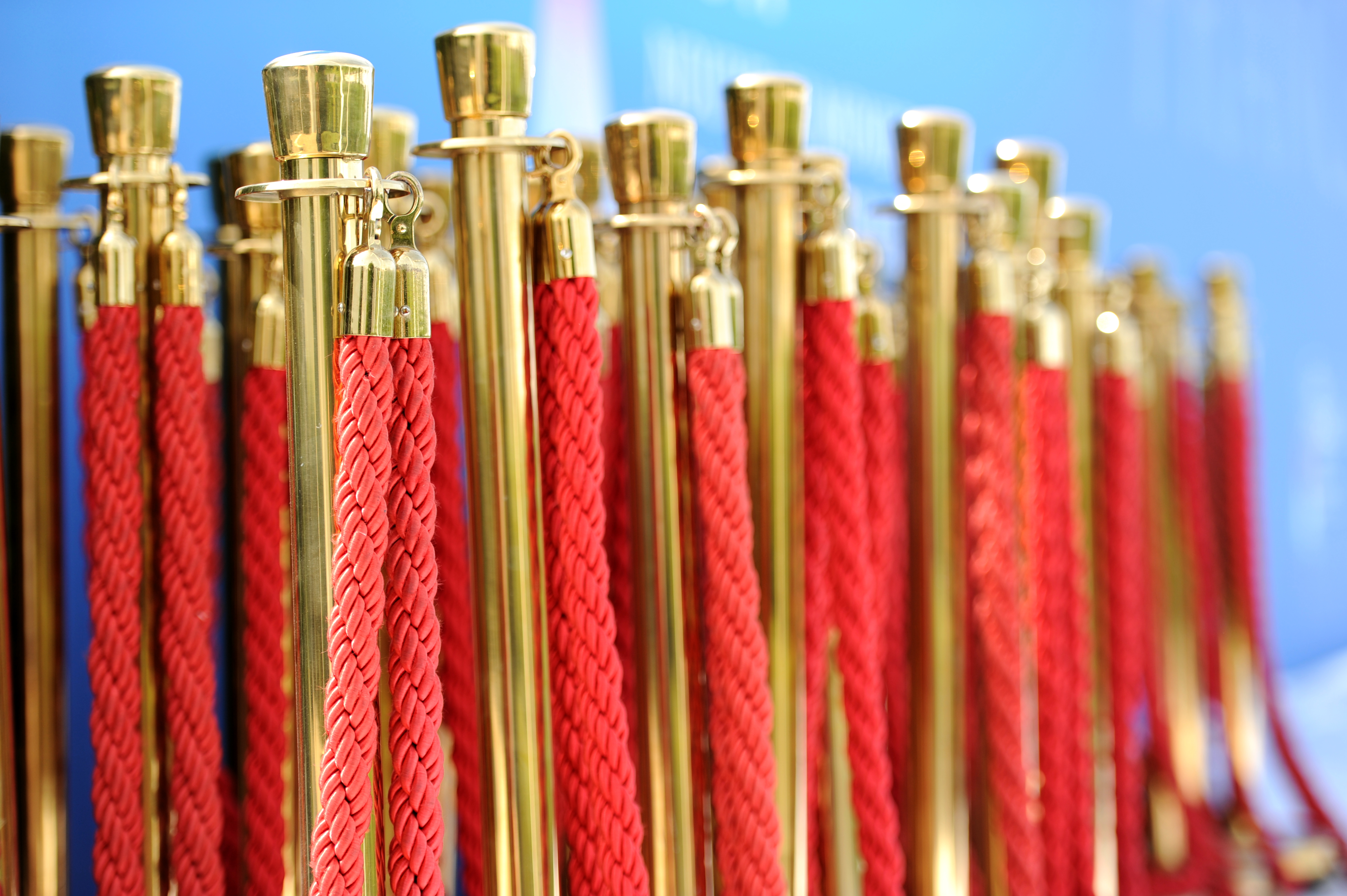 Golden stanchions and velvet ropes in preparation for the 37th G8 summit in the Centre international de Deauville, France.